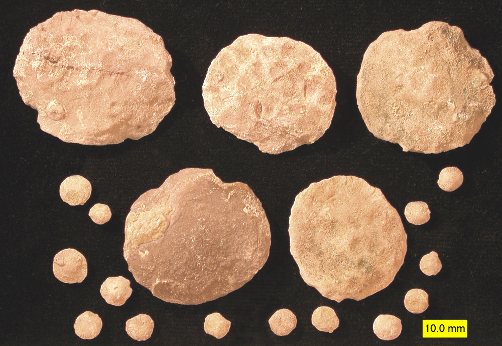 Nummulitid foraminiferans from the Eocene near Al Ain, United Arab Emirates.